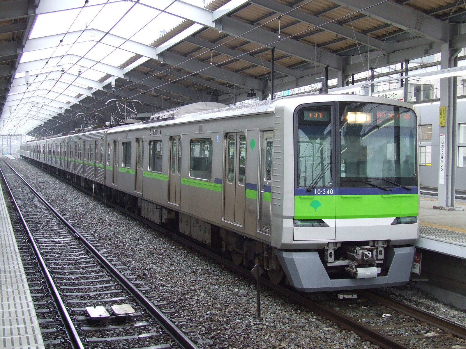 Toei 10-300R series EMU set 10-340 at Keio Tama-Center Station